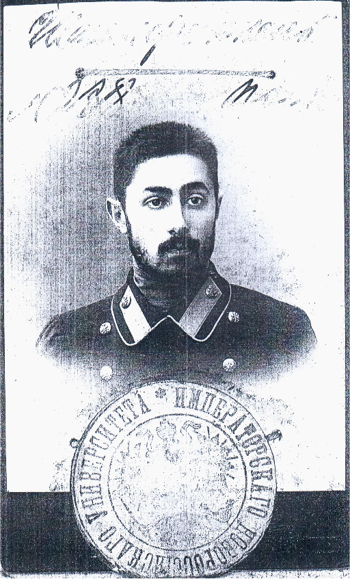 Moses Schonfinkel, student in 1910